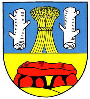 Coat of arms of the municipality of Großenkneten